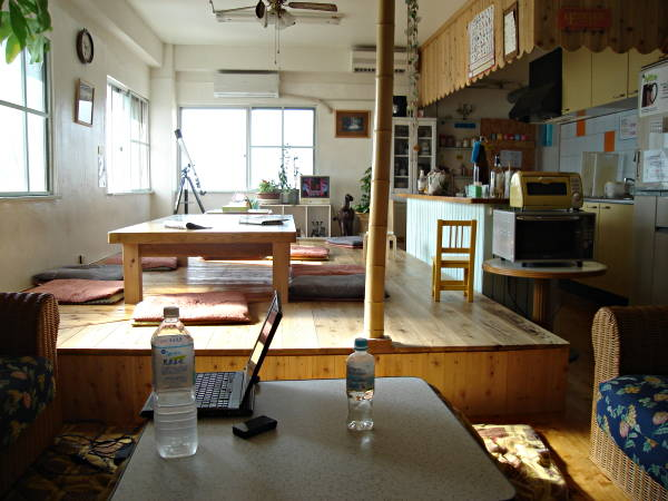 Photo of a hostel in Japan